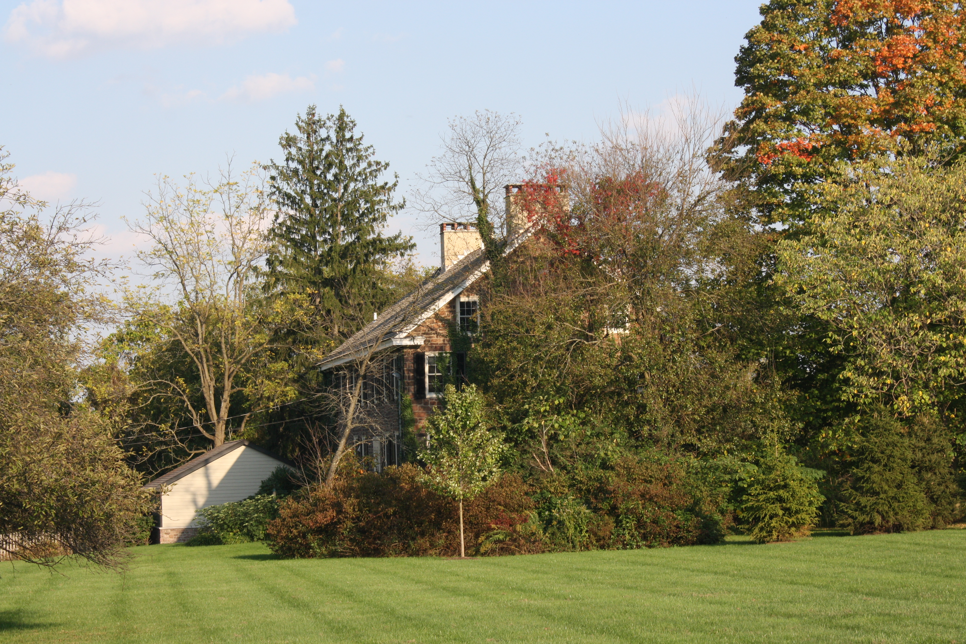 Benjamin Taylor Homestead (Dolington Manor), Lower Makefield Township, Bucks County, Pennsylvania. Object location40° 15′ 26″ N, 74° 54′ 43″ W